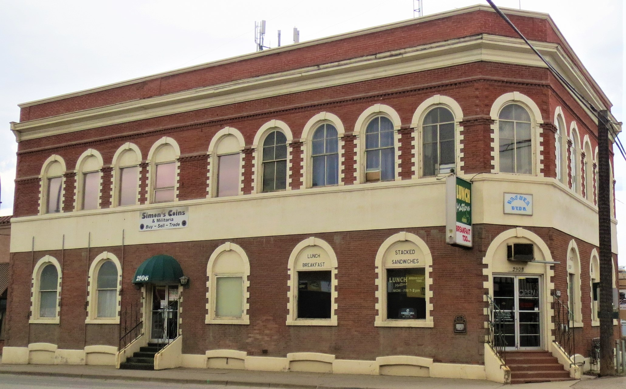 Bank of Montreal Historic Building